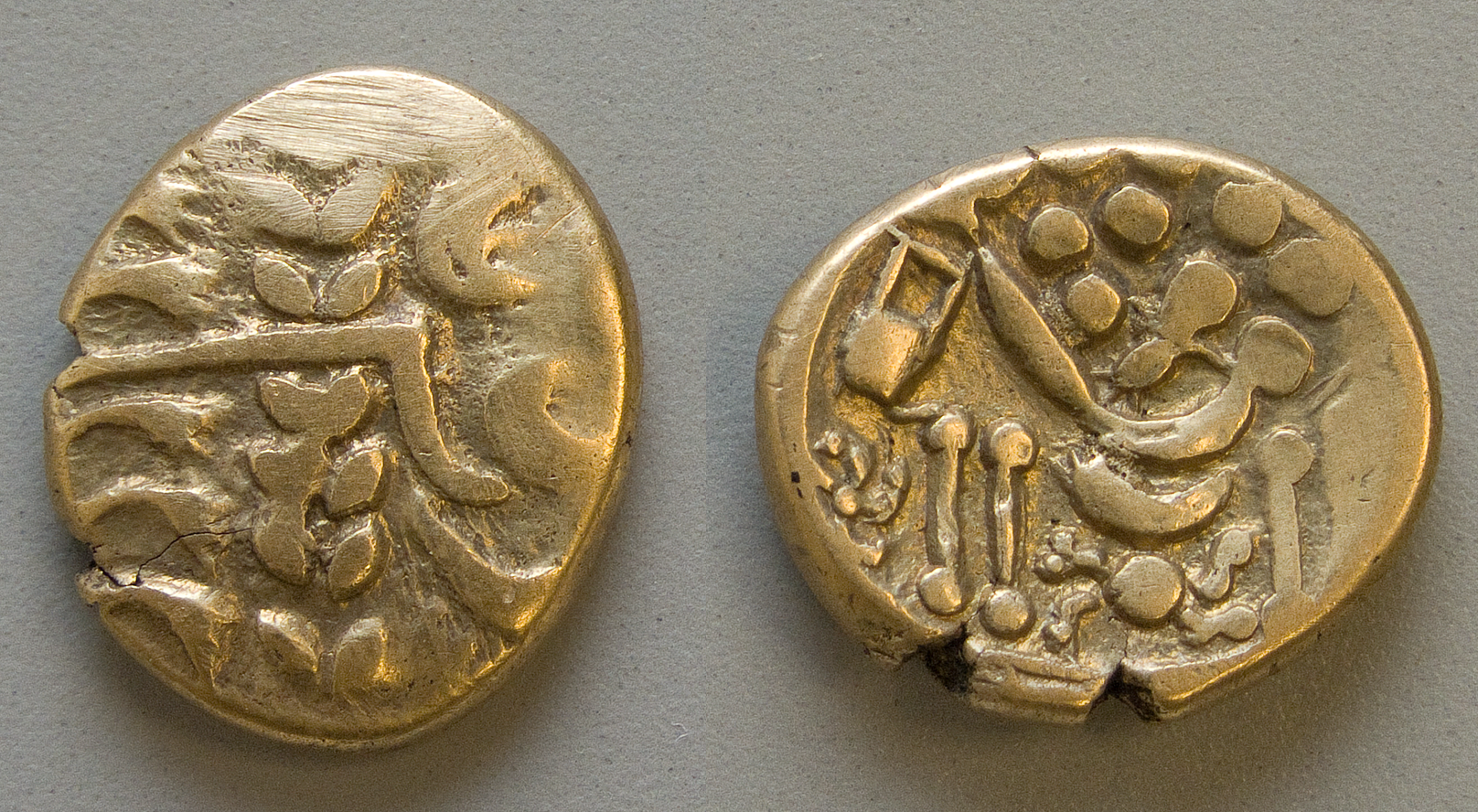 British A stater. Also known as Westerham and Ingoldisthorpe stater and Westerham stater